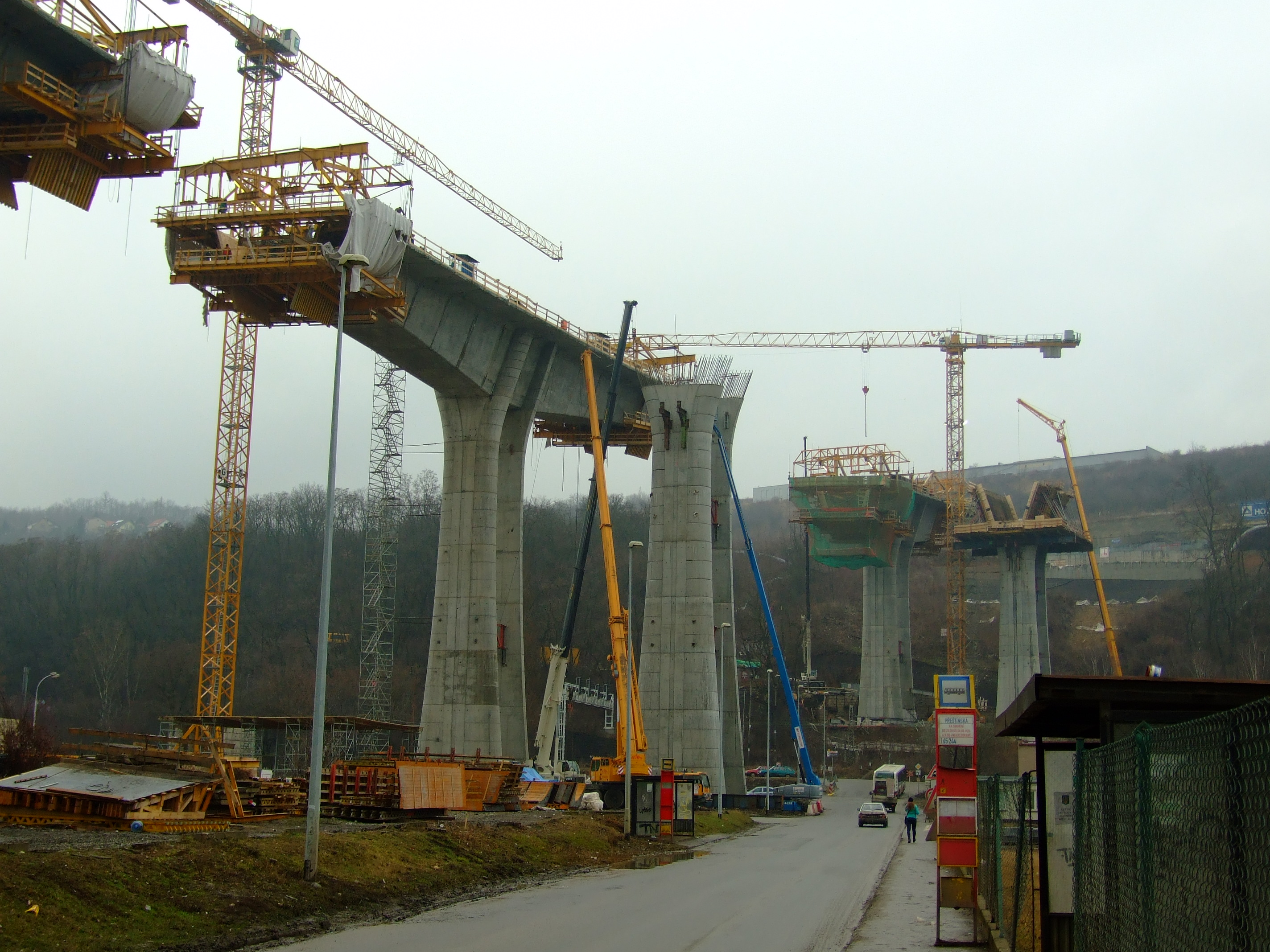 Lahovice city ring bridge under construction, Prague, CZhelp